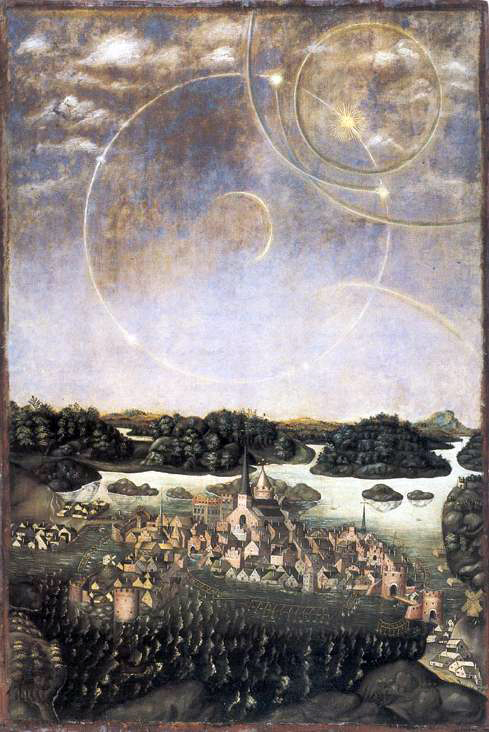 17th century painting of Stockholm, a copy of the so called Vädersolstavlan, depicting a halo display event in 1535. Cleaned in 1998. The visible haloes are: 22 ° halo, at upper right (should be centered on the Sun) parhelic circle, large white circle (centered on the zenith: appears 'horizontal' in the sky) parhelia including 2 sundogs, 2 120° parhelia and the anthelion (dots on the parhelic circle, resp. nearest to farthest from the Sun) upper tangent arc and possible Parry arc (2 crossing arcs just left of the 22° halo (actually 'above' the 22°, in the sky); not realistically shown) circumzenithal arc, smaller crescent inside the parhelic circle (also centered on the zenith: appears 'horizontal', high in the sky) infralateral arc (bottom right) Note that the whole sky appears strongly tilted in the image: the upper right corner is actually down in the sky (when looking towards the Sun), the zenith is at the center of the circumzenithal arc and parhelic circle. This may result from the artist's choice to represent the display in a realistic orientation relative to the landscape: in this case the sun would have shone from 3/4 back to the right of an observer facing the city. The relative brightnesses of the haloes are quite accurate.